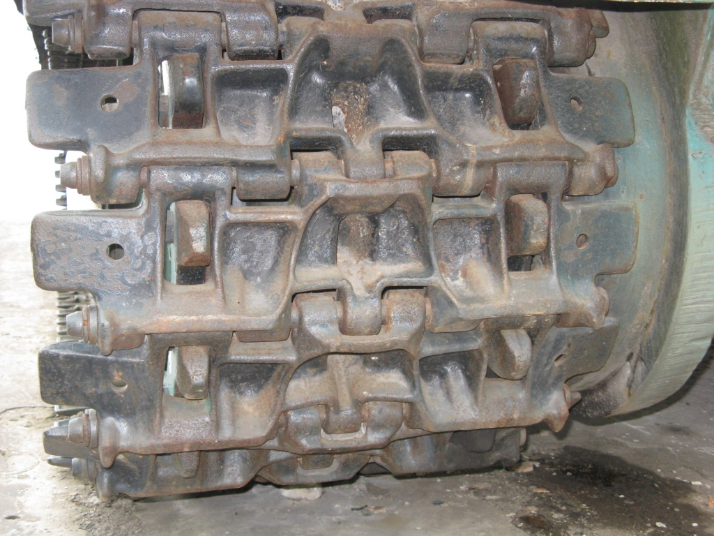 Truck T-10M.Foto tank on the pedestal in g.Kagarlyk Kiev.